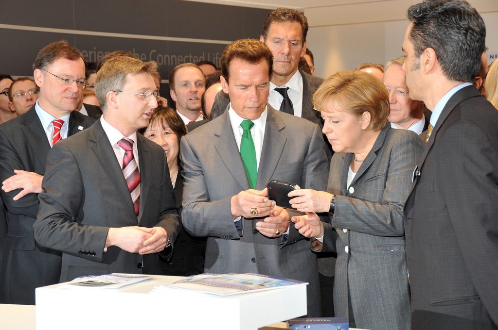 California Governor Arnold Schwarzenegger and German Chancellor Angela Merkel visit with NETGEAR executives David Soares (Sr. VP of Worldwide Sales & Support) and Thomas Jell (Managing Director, Central Europe), at CeBIT 2009, the world's largest trade fair for digital business solutions and information and communications technology.